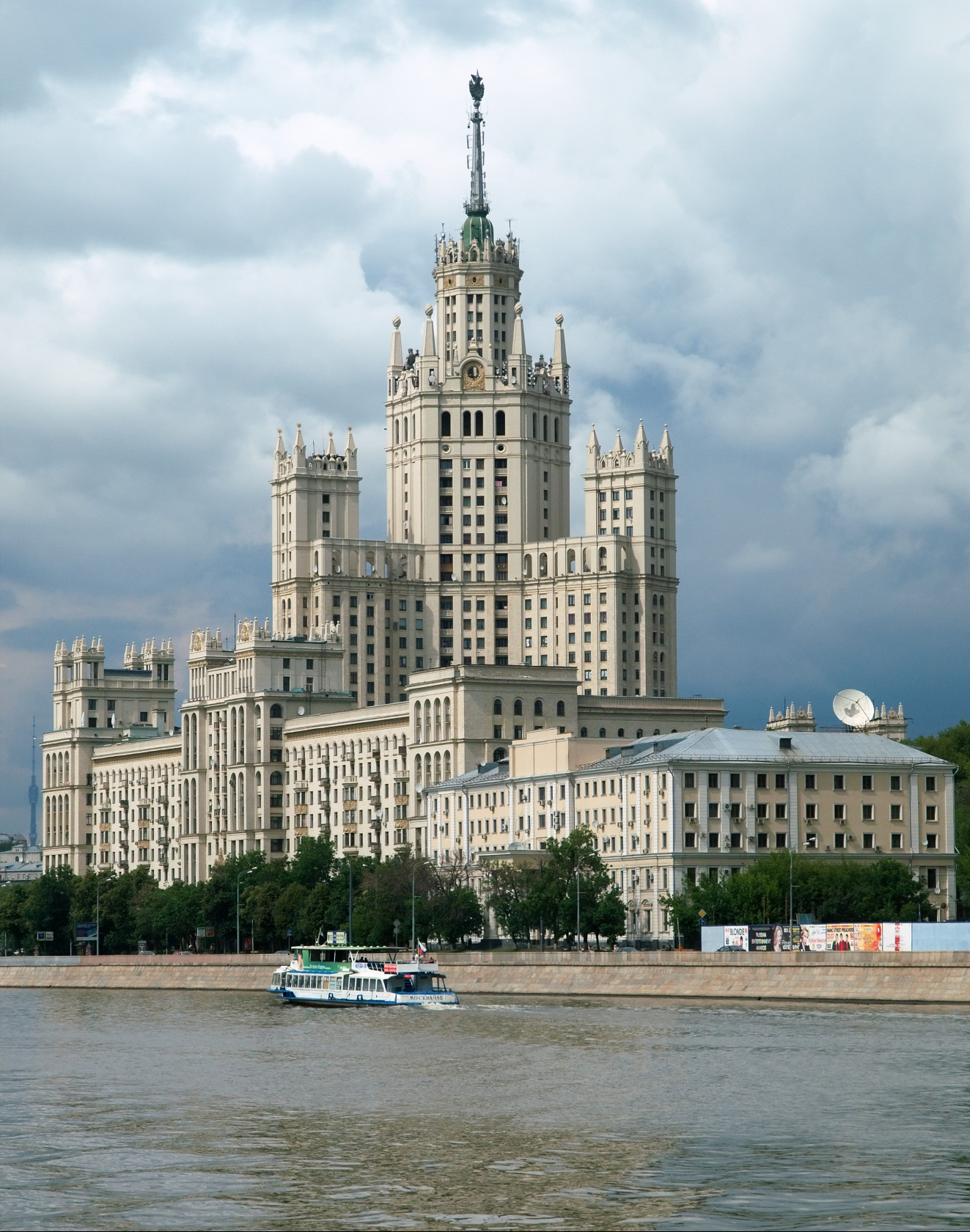 Moscow, Kotelnicheskaya Tower. Try to find Ostankino Tower in the same picture :).